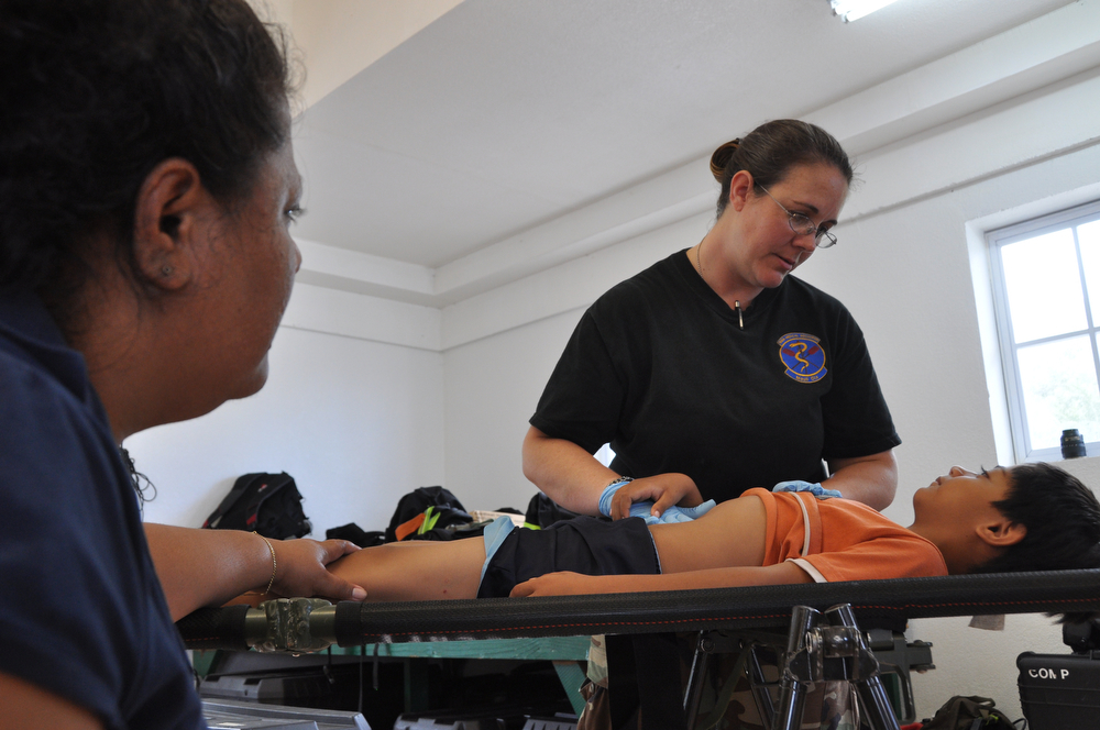 A female physician palpates a boy's addomen who has stomach pains as his mother watches Oct. 2, 2009, at the Congregational Christian Church of American Samoa in Fagatitua, American Samoa.